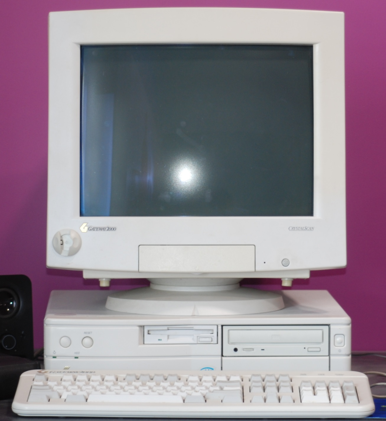 Gateway 200 Personal Computer. On display at the Living Computer Museum in Seattle, Washington.